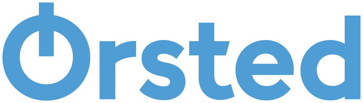 Ørsted Logo